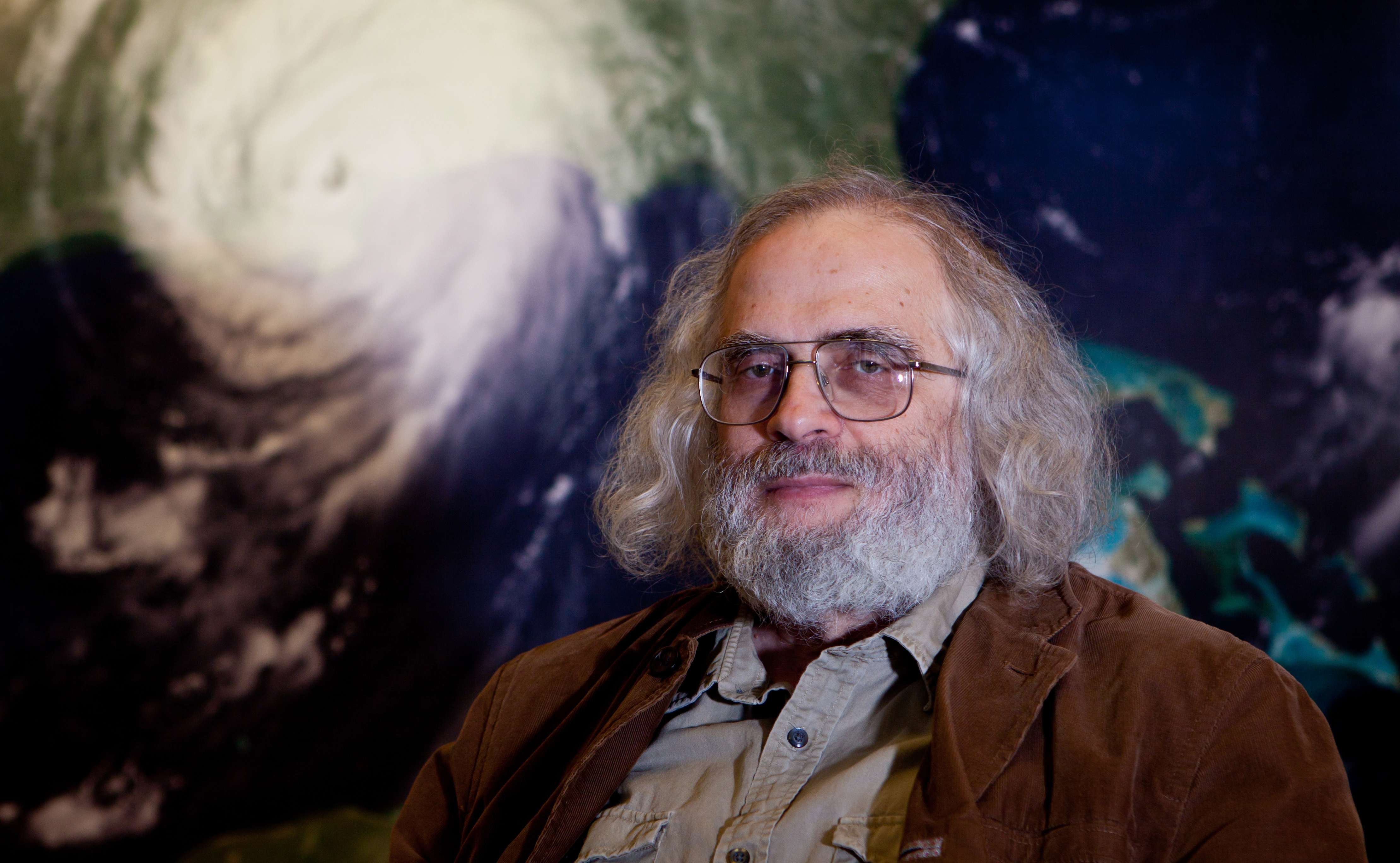 A portrait of Isaac Held